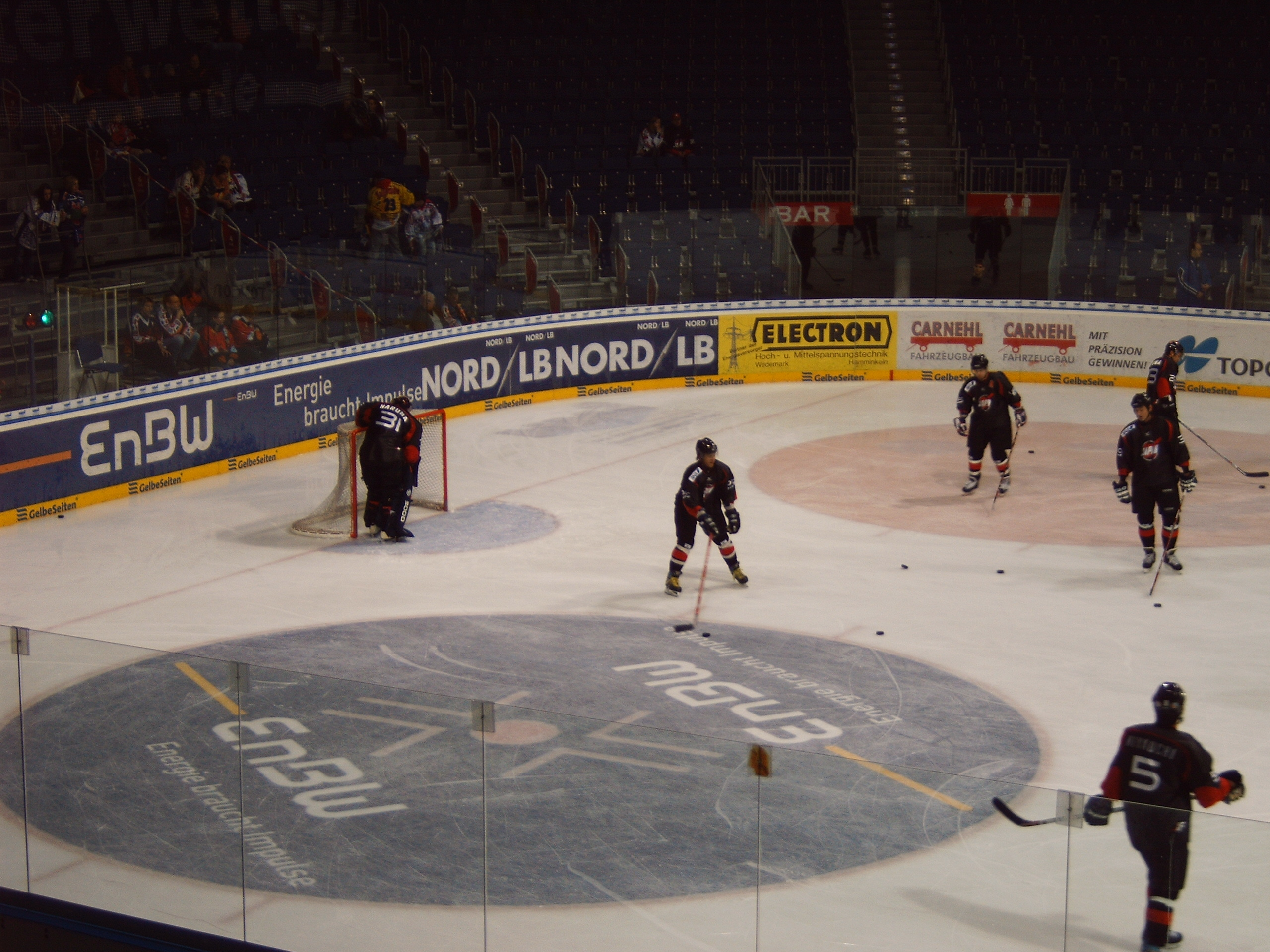 Icehockeynationalteam of Japan at the Deutschlancup (Nov 2006; Hannover)